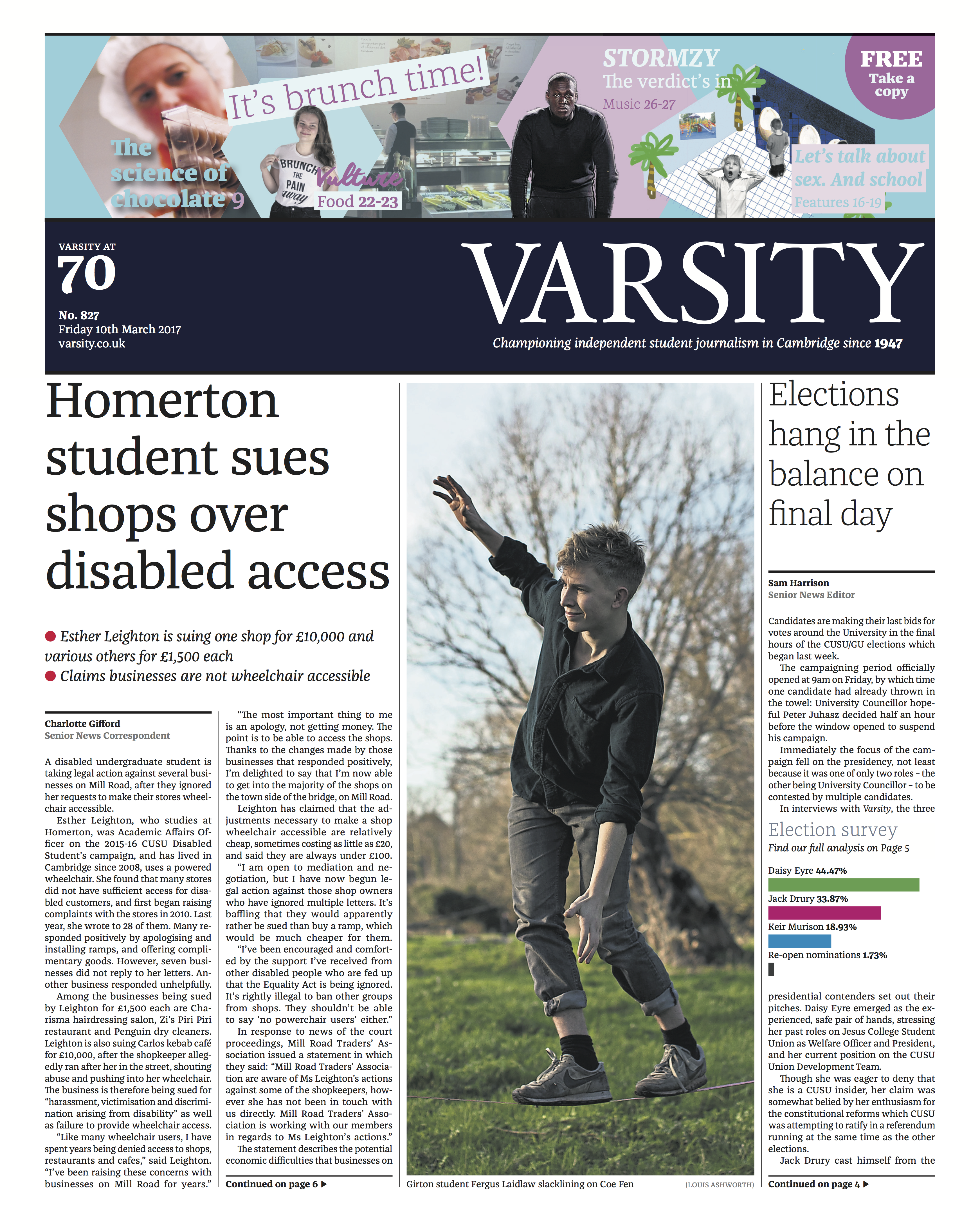 The front page of Varsity issue 827, published on 10th March 2017.